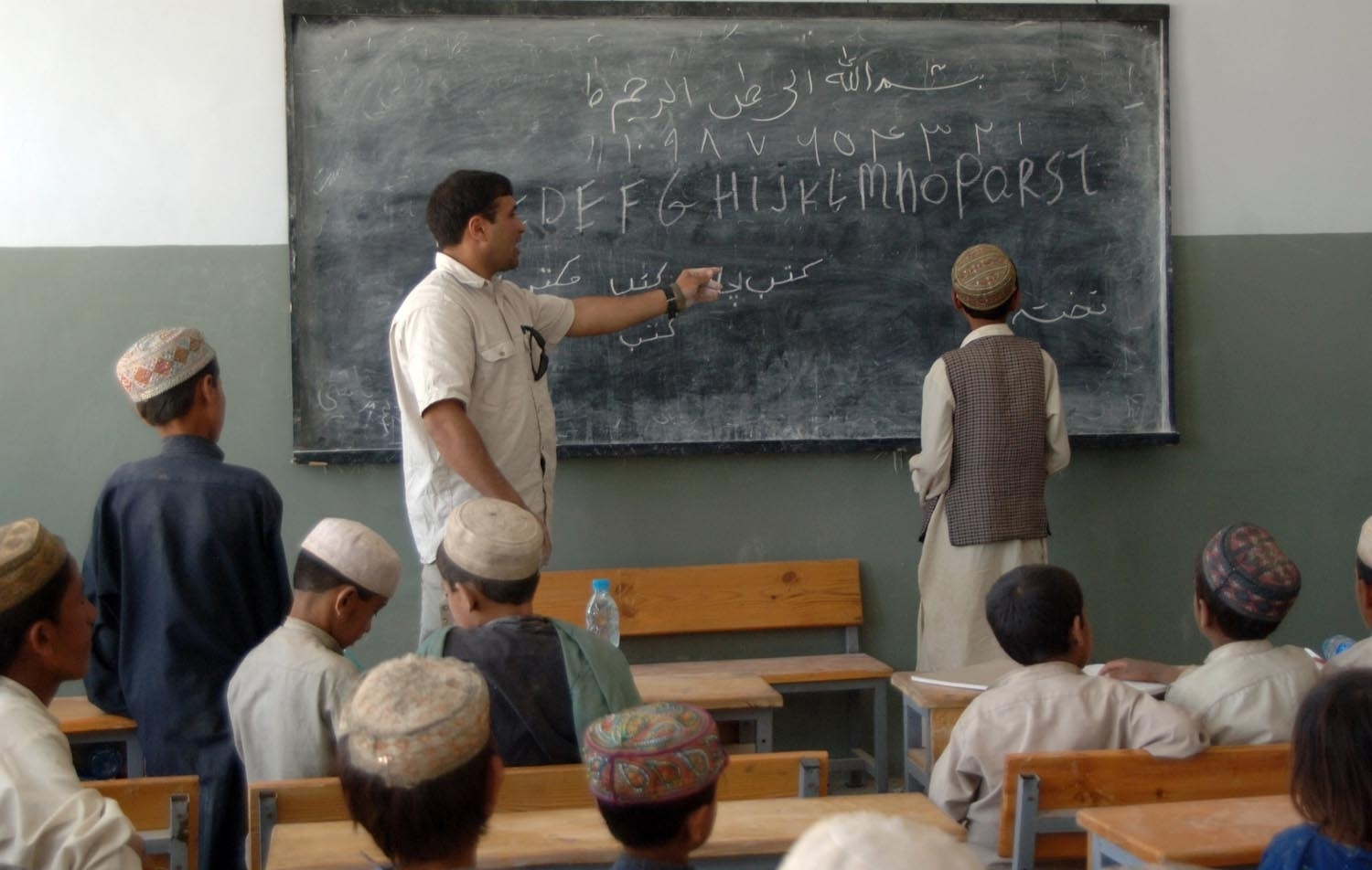 Afghan students learning English.